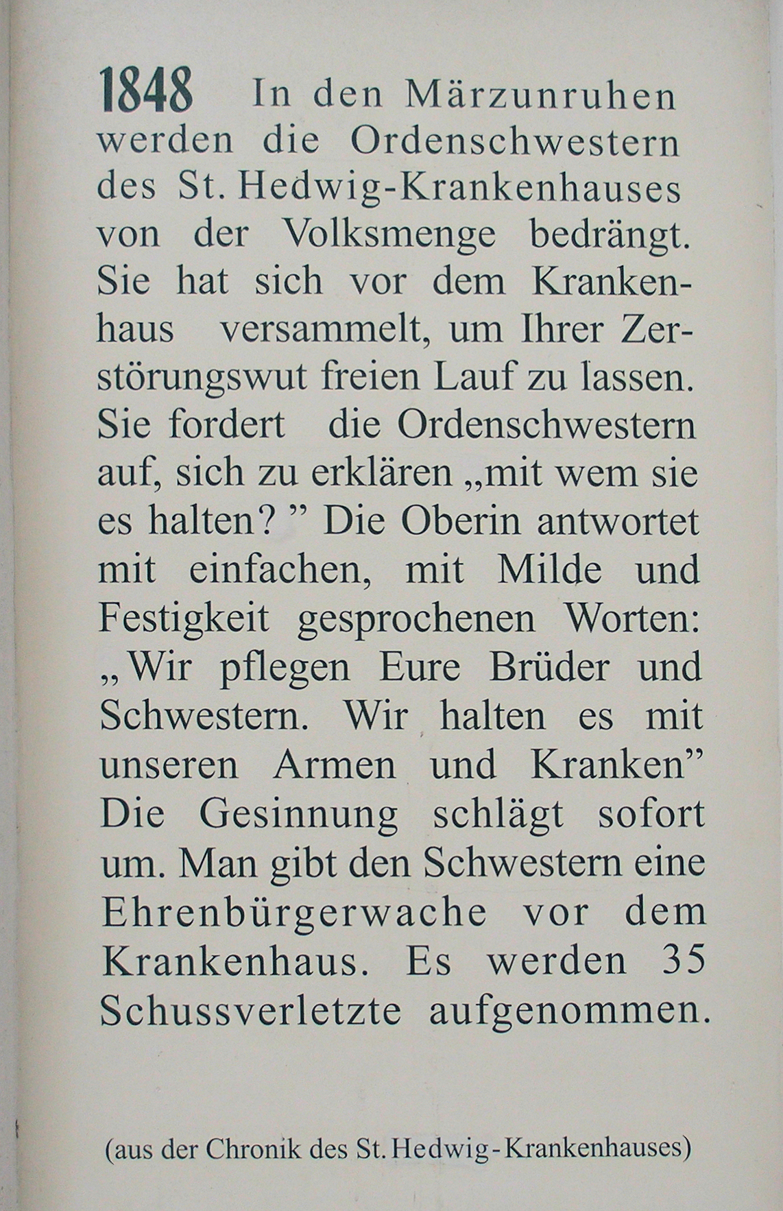 Memorial plaque, St. Hedwig-Krankenhaus, Krausnickstraße 12A, Berlin-Mitte, Germany